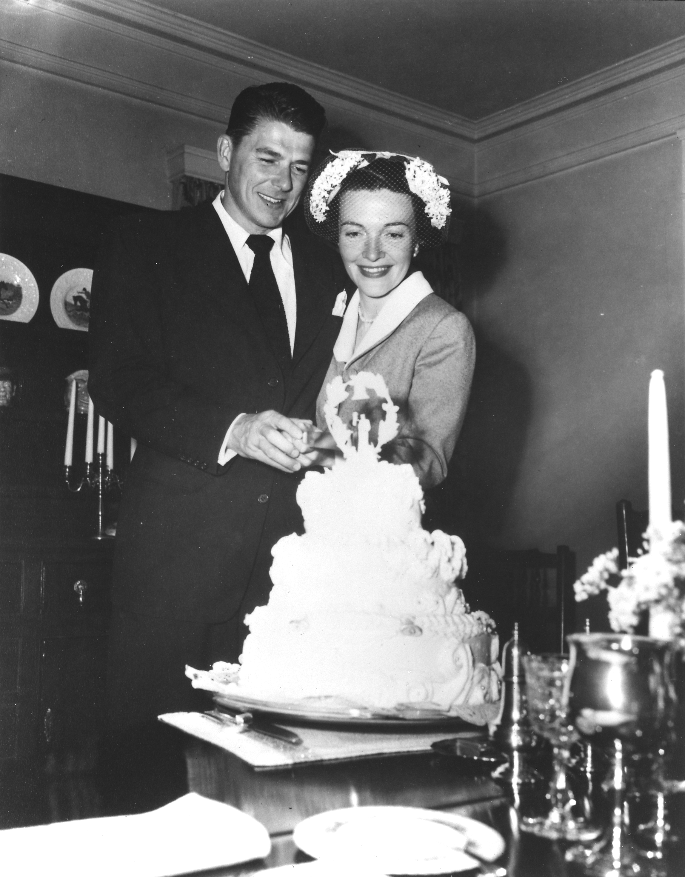 Description: Photograph of Newlyweds Ronald Reagan and Nancy Reagan cutting their wedding cake, 03/04/1952 Access Restrictions: Unrestricted Use Restrictions: Unrestricted Creator: Submitted to White House Photographic Office. (1981 - 1989) ( Most Recent) Location: Ronald Reagan Library (NLRR), 40 Presidential Drive, Simi Valley, CA 93065-0600 PHONE: 800-410-8354, FAX: 805-577-4074, Description: Item from Collection RR-WHPO: White House Photographic Collection, 01/20/1981 - 01/20/1989 This photograph was not created by the United States government; however, it became property of the United States government (NARA) during the Reagan Administration, and according to the National Archives, there are no restrictions on its use.